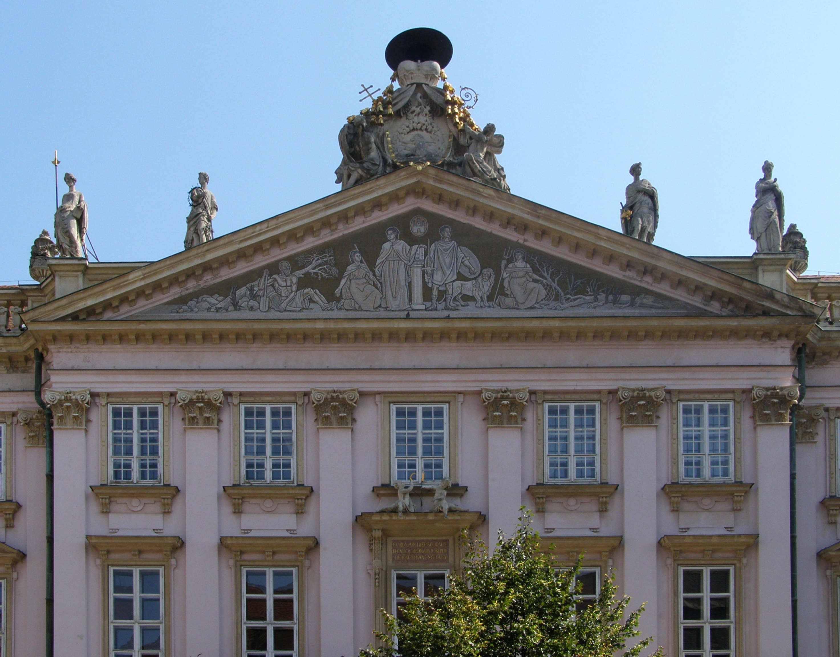 Primate's Palace